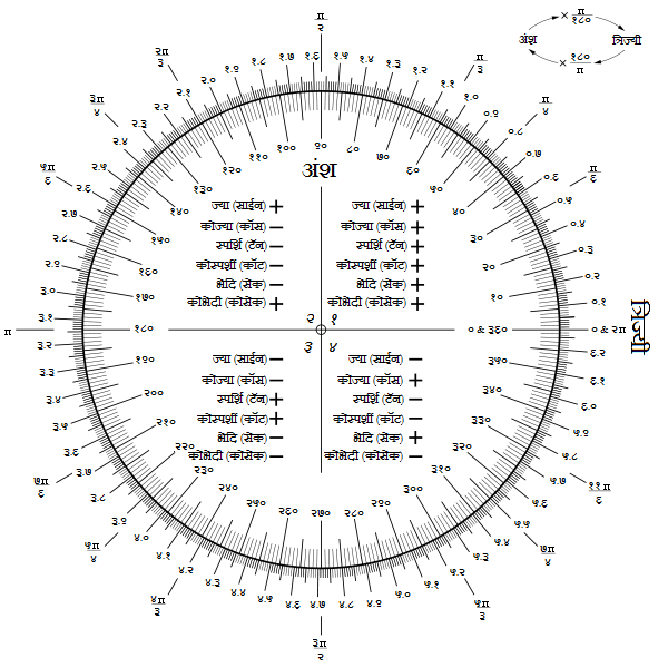 information about degree and radian in marathi